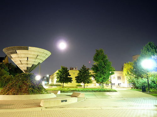 self-made, inyque, flickr